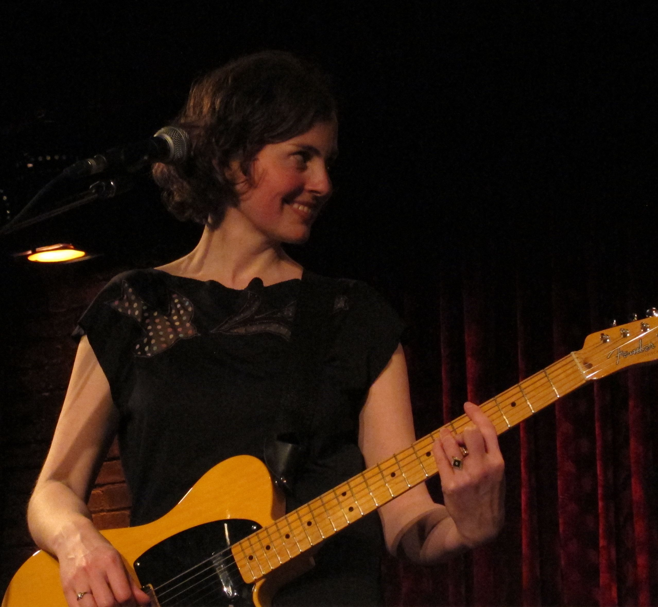 G# Taken during her solo (with band) show at the Duncan Garage Showroom on April 9, 2011.